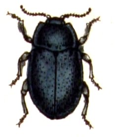 Chrysolina haemoptera, from Calwer's Käferbuch, Table 44, Picture 8. Taxonomy was updated to 2008, using mostly the sites Fauna Europaea and BioLib. Please contact Sarefo if the determination is wrong!